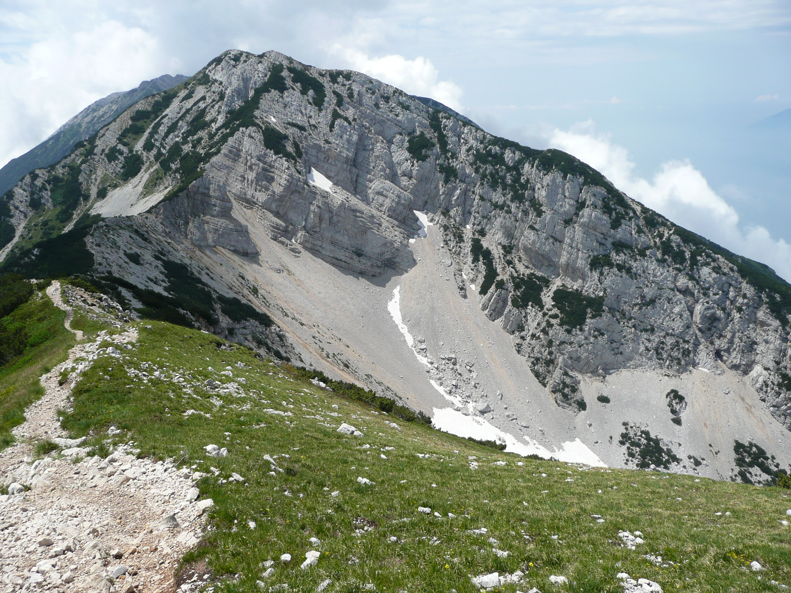 Ridge of Monte Baldo Mountain Range, Lake Garda, Veneto, Italy.